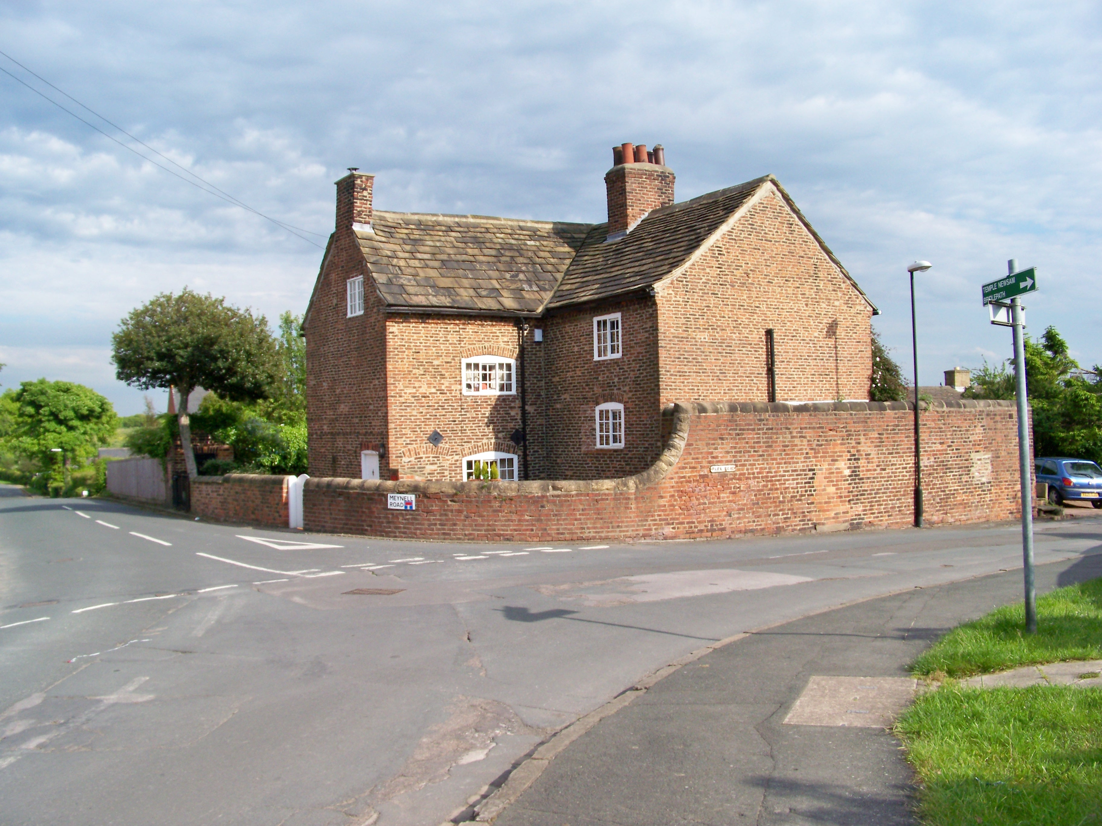 Colton Road/ Meynell Road Junction in Colton, Leeds, West Yorkshire. Taken on the afternoon of the 24th May 2009.